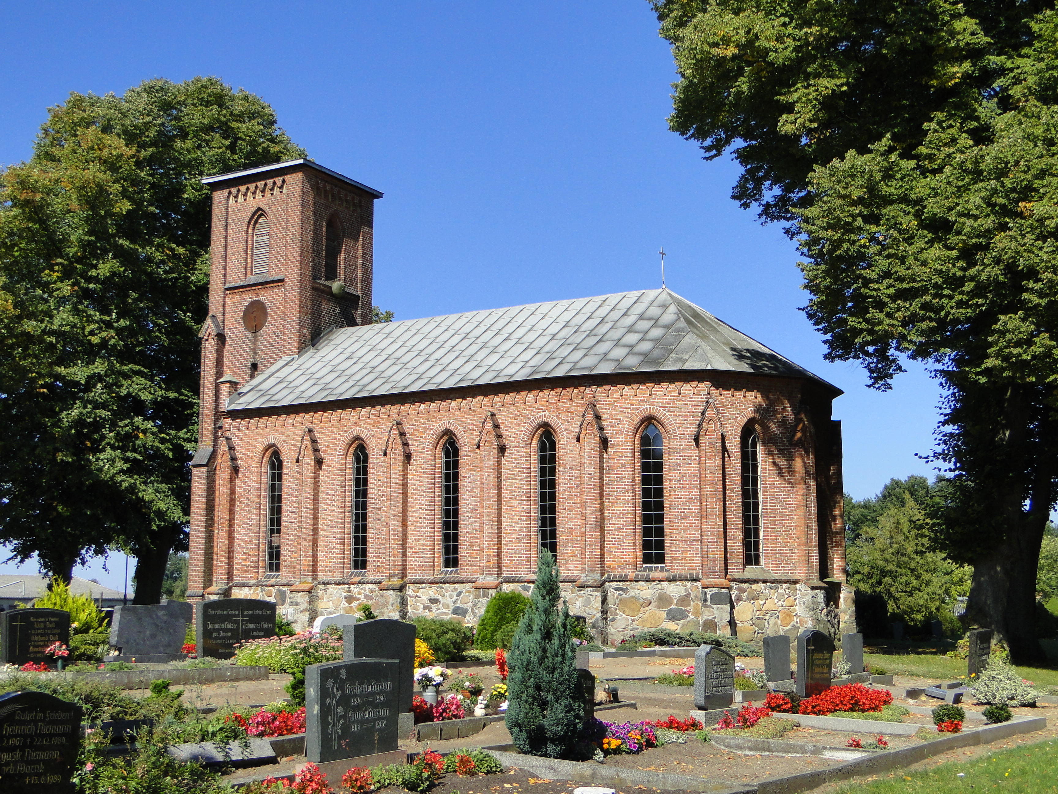 Church in Mirow (Banzkow), district Ludwigslust-Parchim, Mecklenburg-Vorpommern, Germany